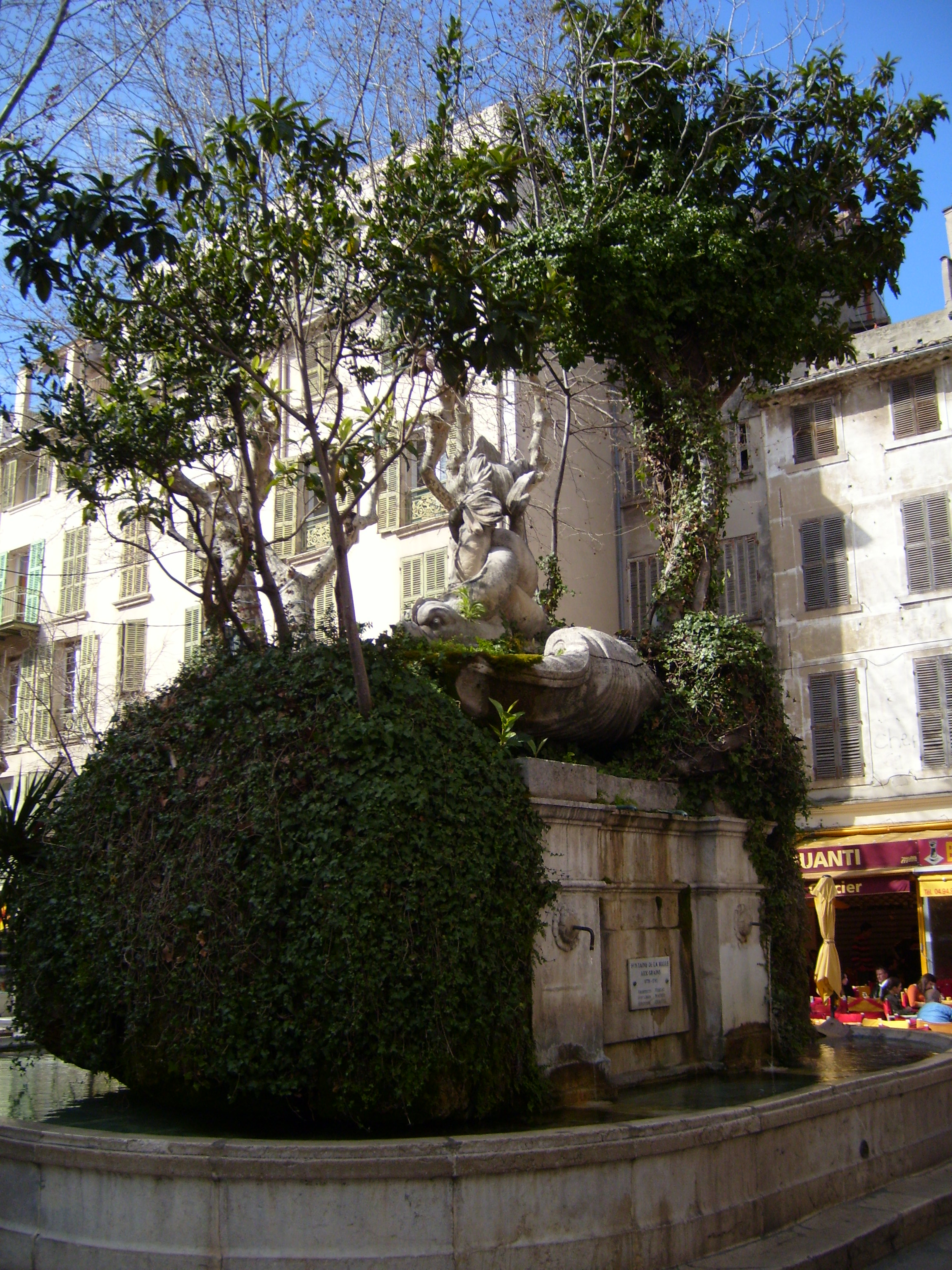 Fountain in Place Puget, Toulon (18th Century)